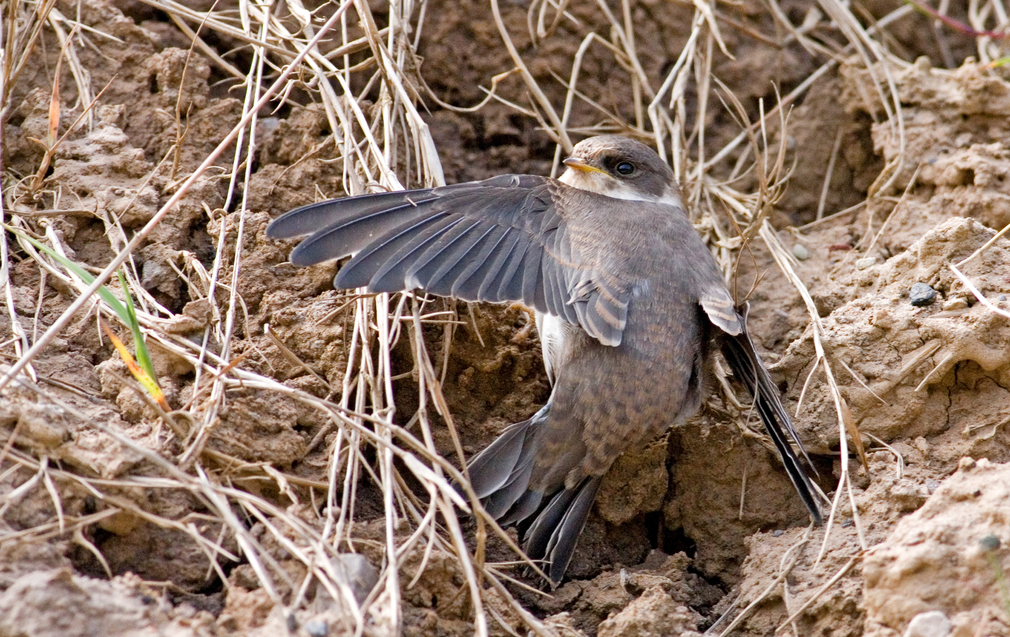 Sand Martin (Riparia riparia). Seaham, Co. Durham, England.